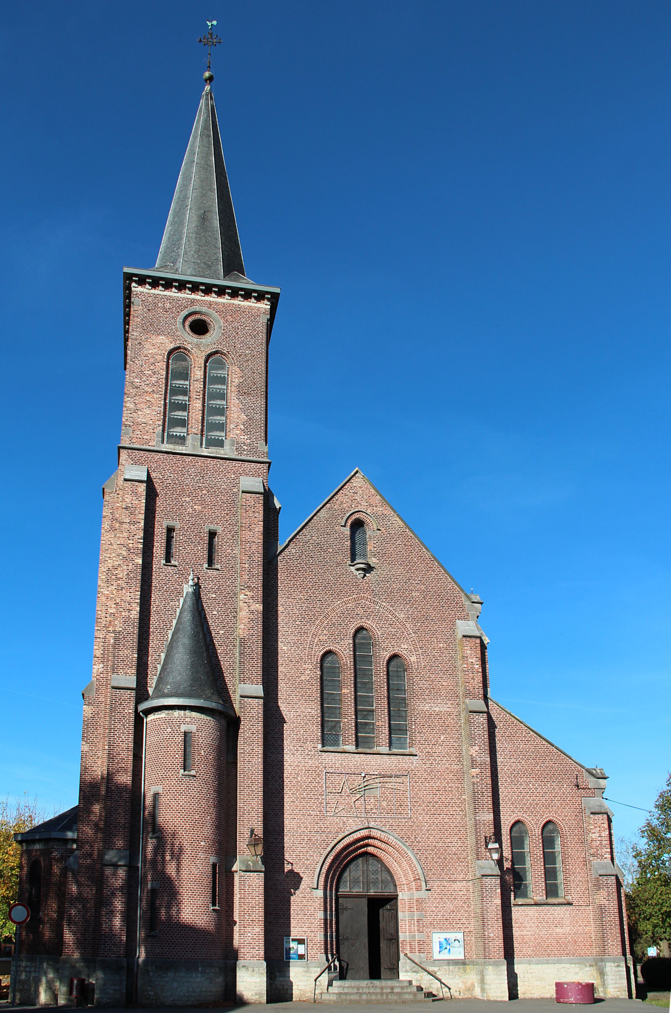 Walhain (Belgium), the church of Notre-Dame (Our Lady).